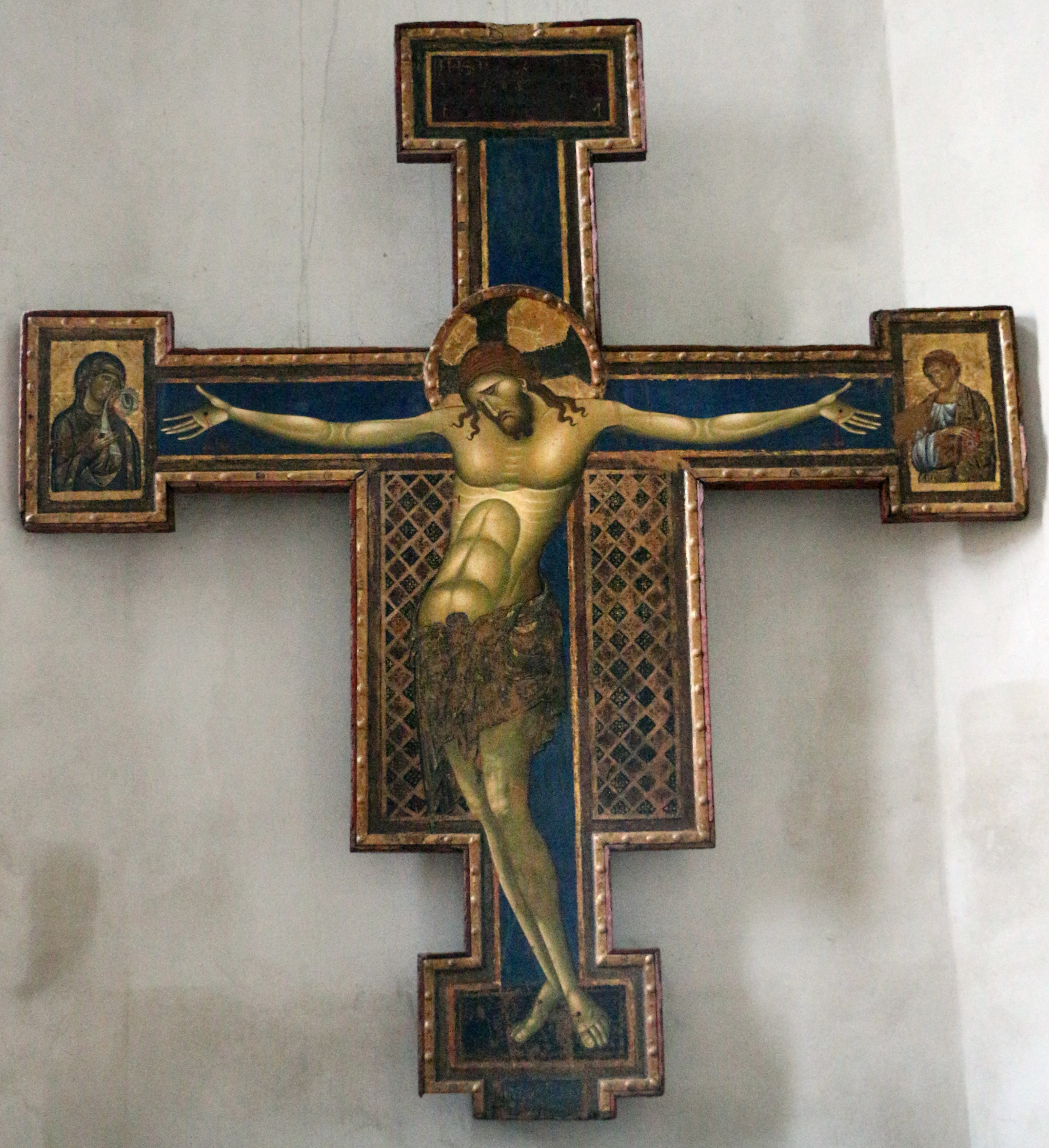 San Domenico (Bologna)